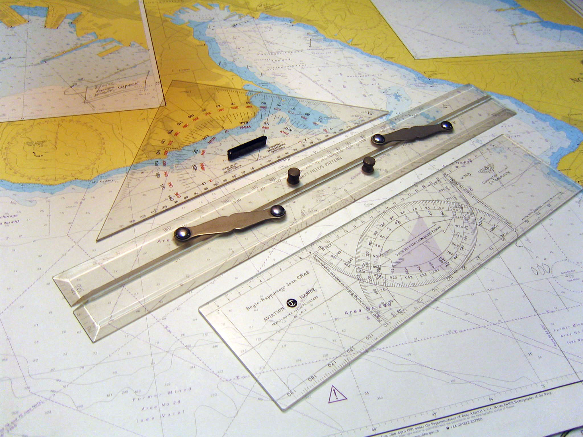 Navigational aids